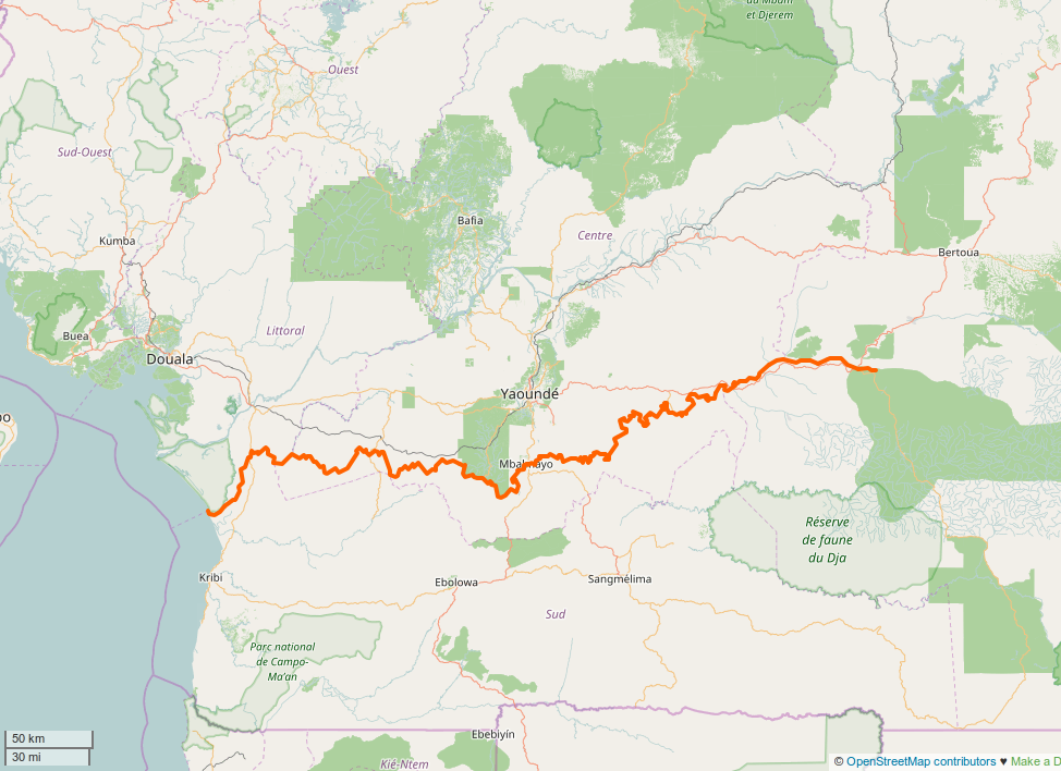 Nyong River in Cameroon, with OSM. This map may be incomplete, and may contain errors. Don't rely solely on it for navigation.